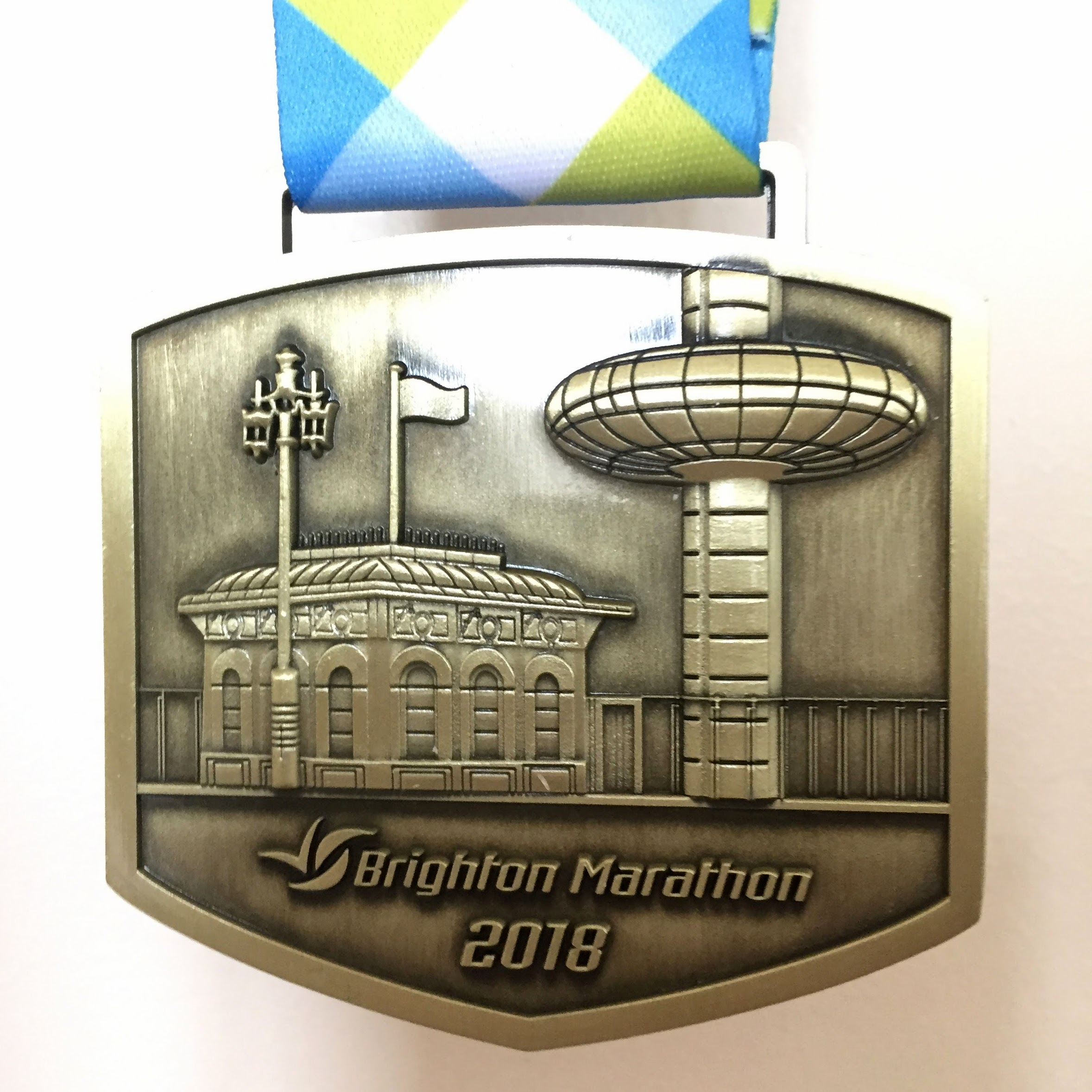 2018 Brighton Marathon finishers' medal